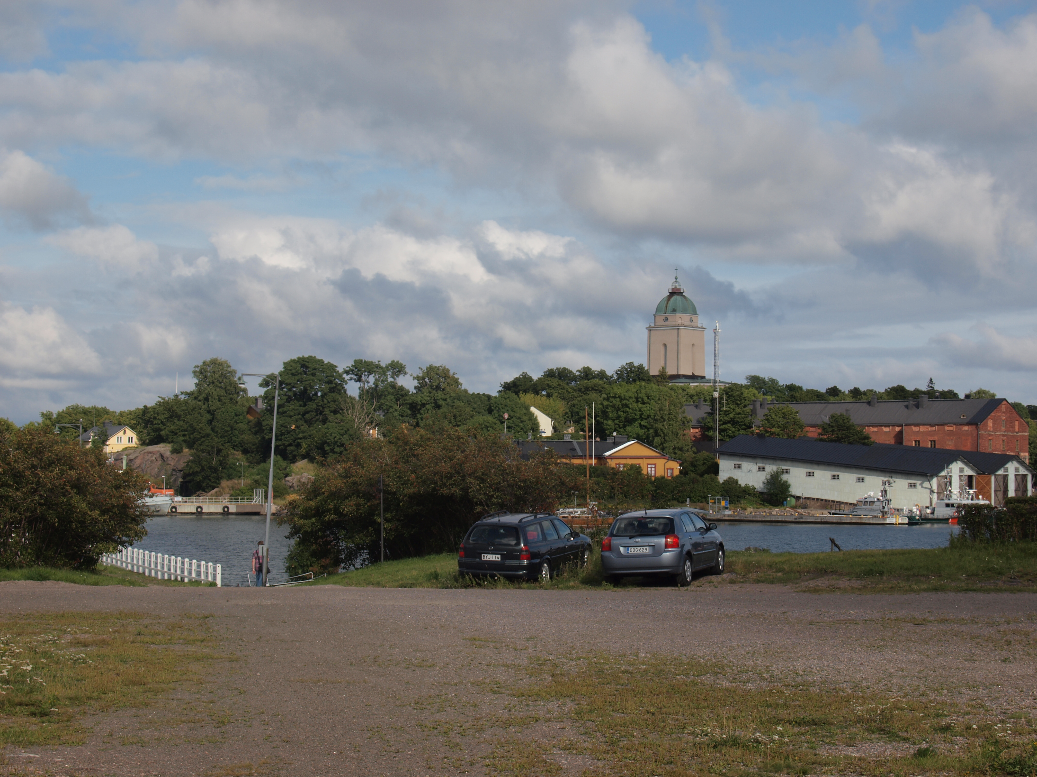 A view from Länsi-Mustasaari towards Pikku-Mustasaari, in Suomenlinna, Helsinki, Finland.